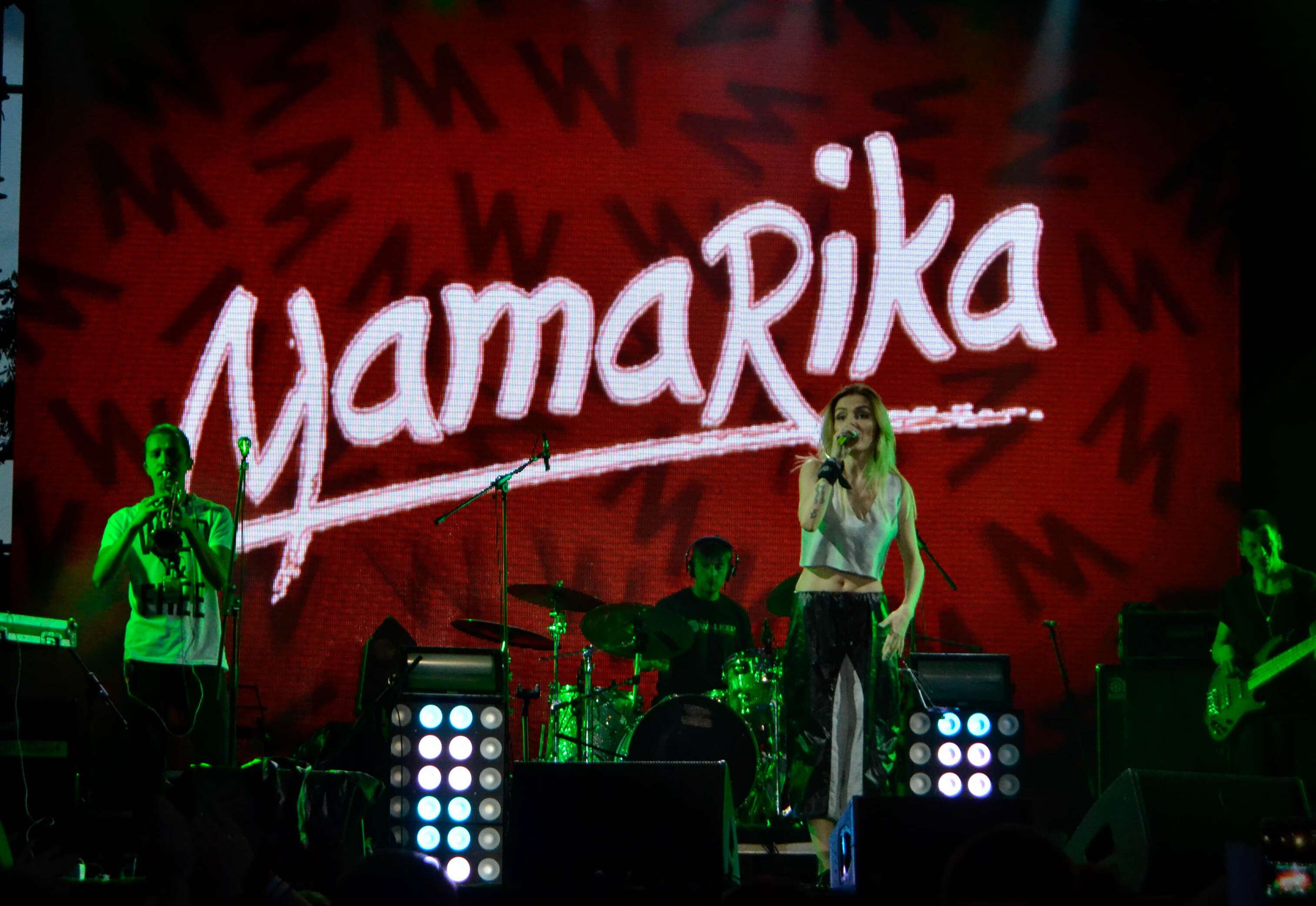 Ukrainian singer MamaRika at the MRPL City 2017 fest in Mariupol.